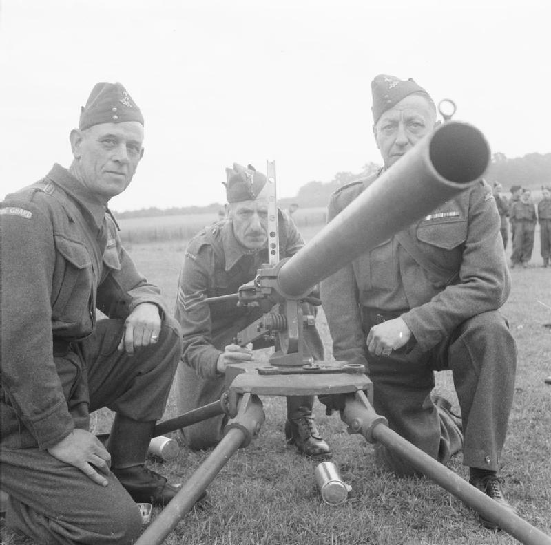 The Home Guard 1939-1945 The Home Guard: 'E' Company 20th (Sevenoaks) Home Guard firing an anti-tank weapon at Chelsfield in Kent.